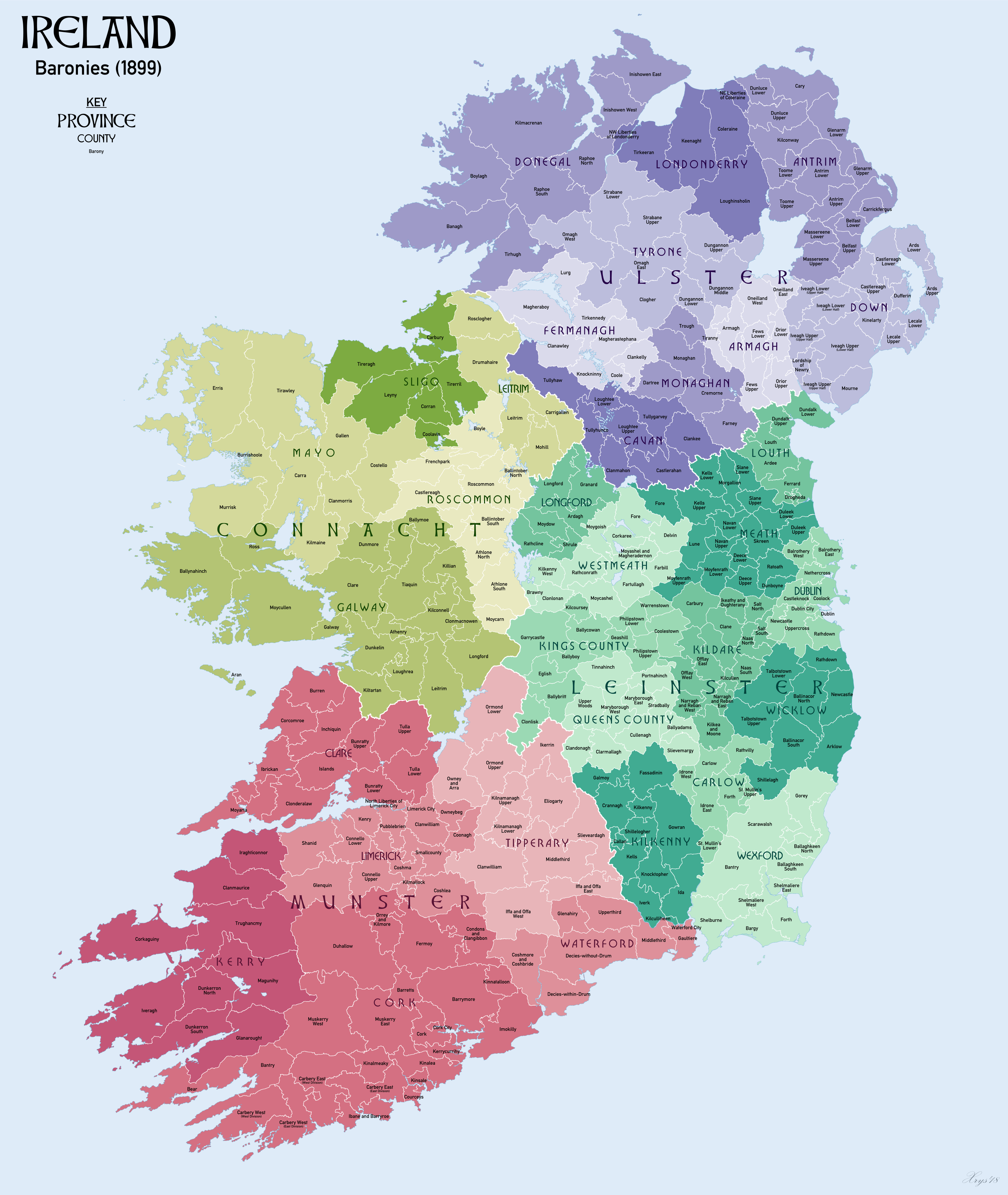 Map of the Baronies of Ireland in 1846. Source data: Ordnance Survey of Ireland: Baronies 2011 (OSI Opendata Ordnance Survey of Northern Ireland Townlands (OSNI Opendata National University of Ireland Galway Barony Maps (